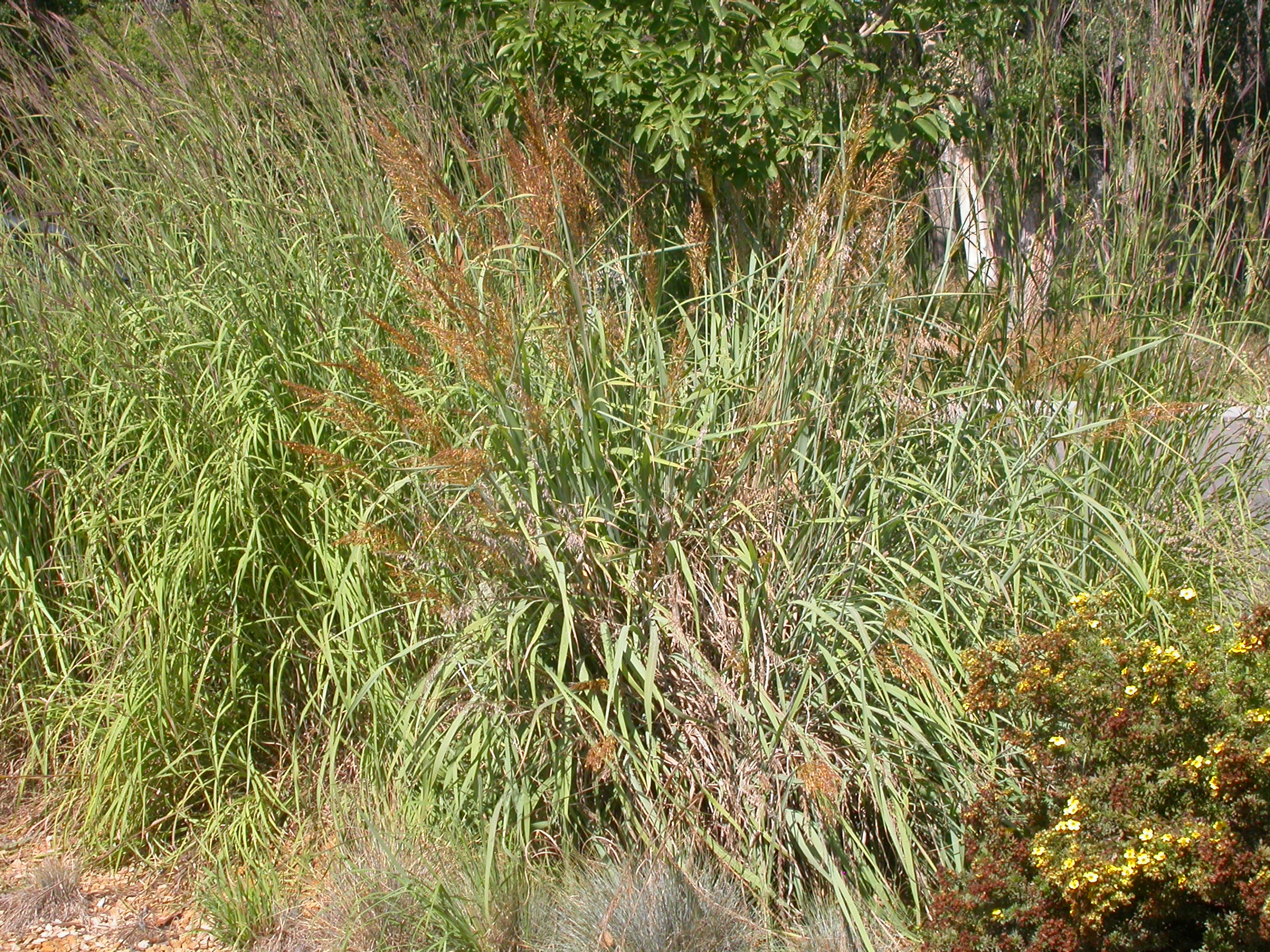 Sorghastrum nutans is cultivated as an ornamental is reported to escape in disturbed moist settings at lower elevations in south central Montana. Andropogon gerardii is the background grass in the ornamental garden at Pompey's Pillar.